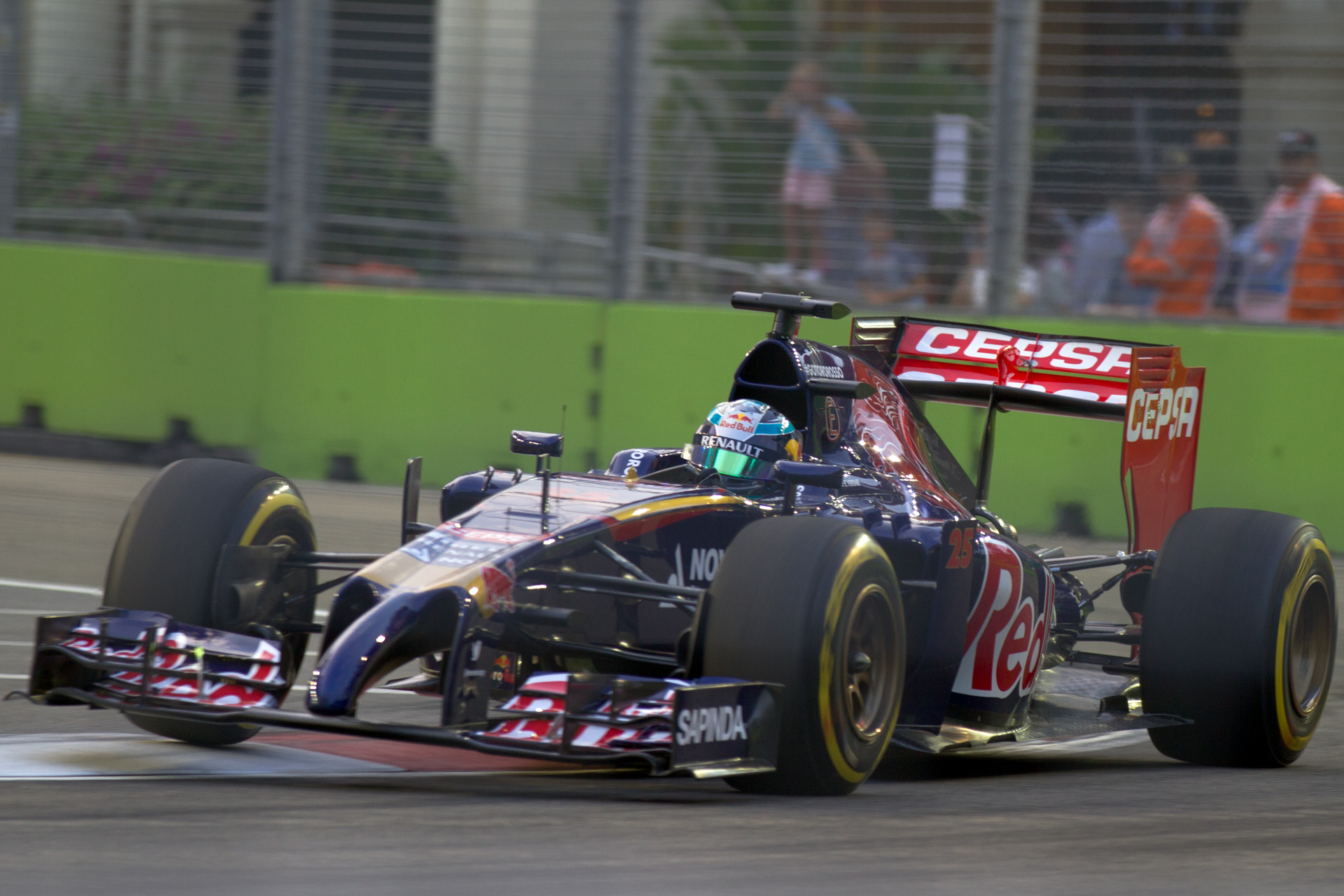 Formula One 2014 Rd.14 Singapore GP: Jean-Éric Vergne (Toro Rosso)